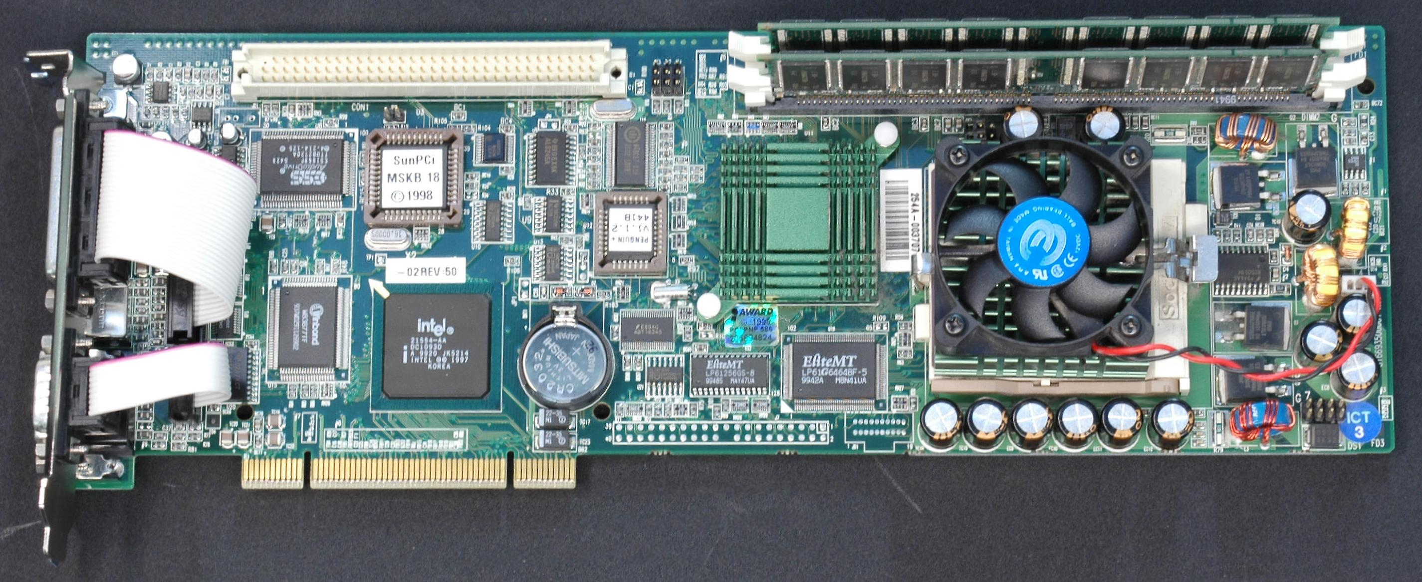 SunPCi PC single-board computer with a 400 MHz X86 CPU. From the collection of the RCS/RI.